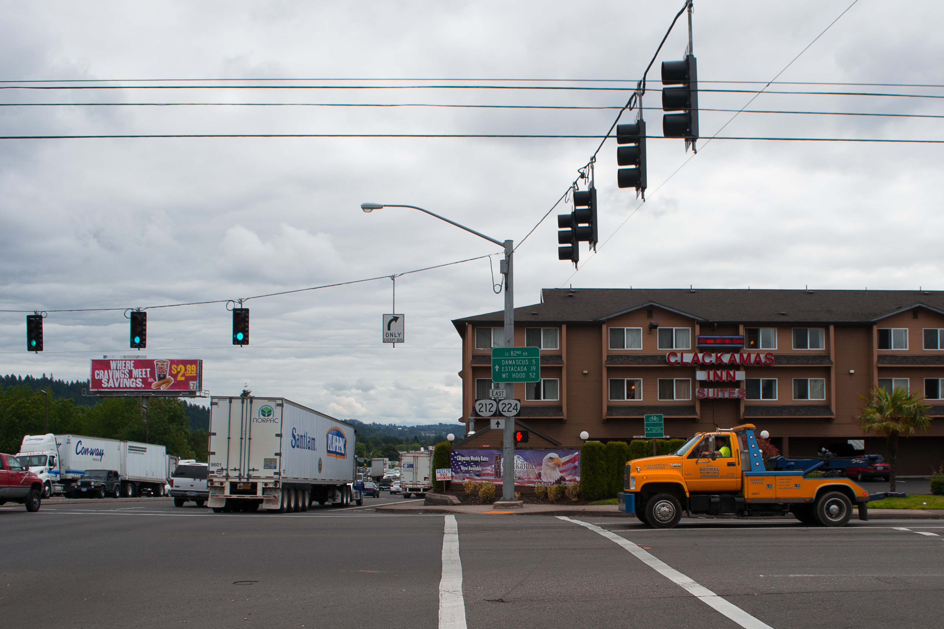 Oregon Route 212/224 and SE 82nd Drive in Clackamas, Oregon